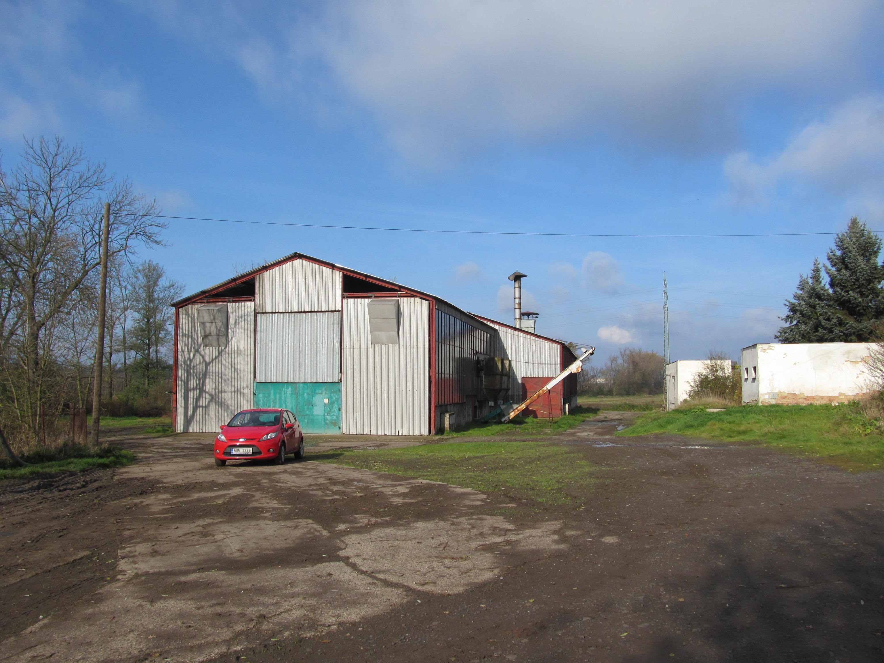 Hops combing machine in Neprobylice